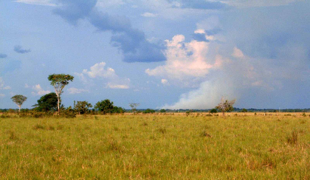 sabana y fuego, Location: Puerto Gaitán